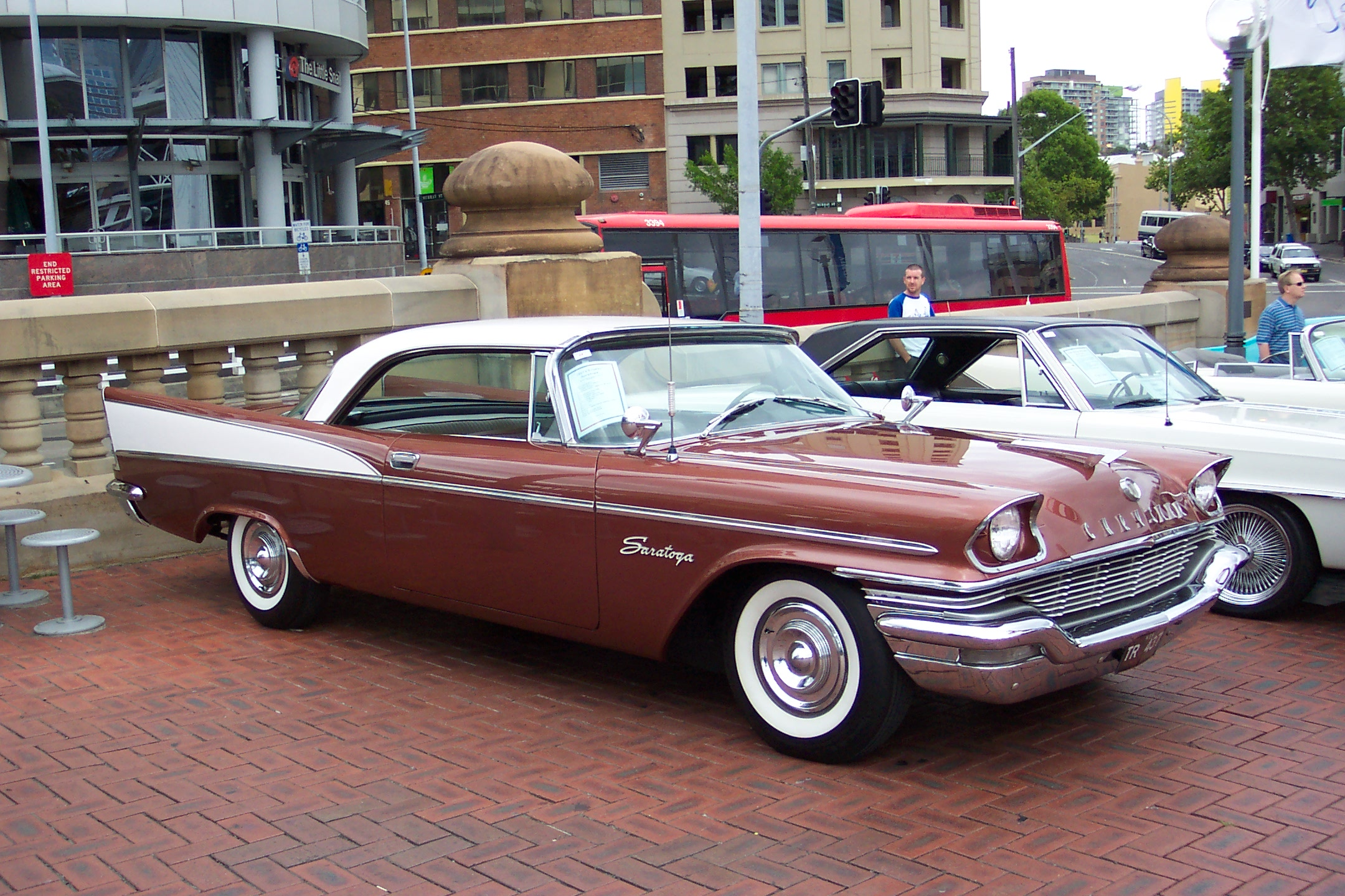 1957 Chrysler Saratoga coupe. Taken at the Chrysler & Valiant Owners Association 2005 Display Day, held on Pyrmont Bridge, a historic swing bridge that spans Darling Harbour in Sydney.